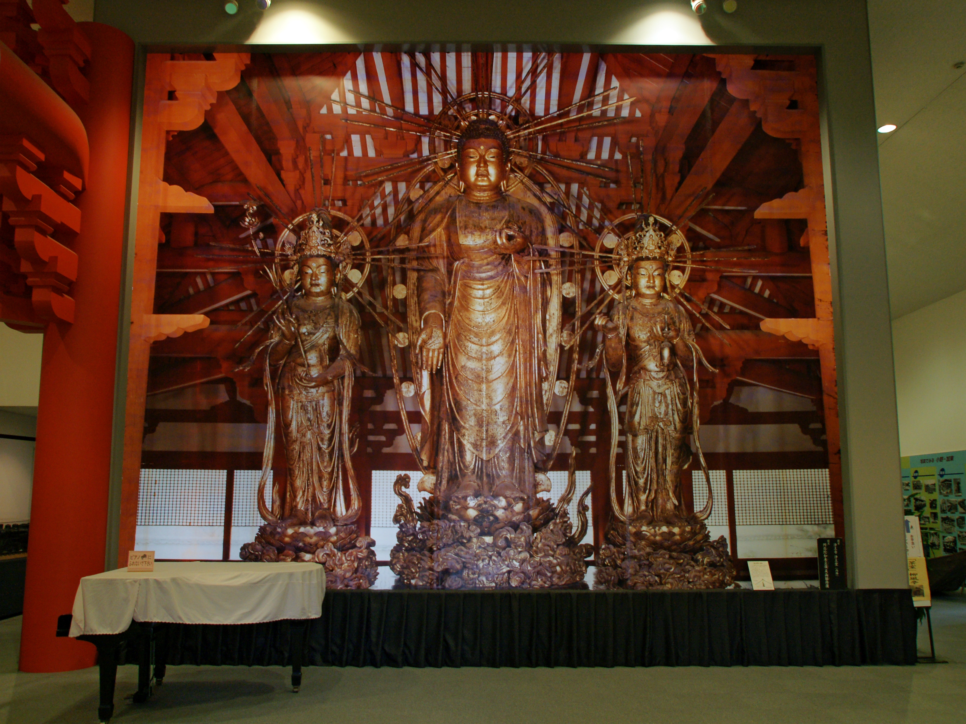 City Museum Ono (Kokokan) in Ono, Hyogo prefecture, Japan.